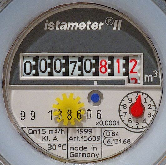 This image shows a detail of a Water meter.